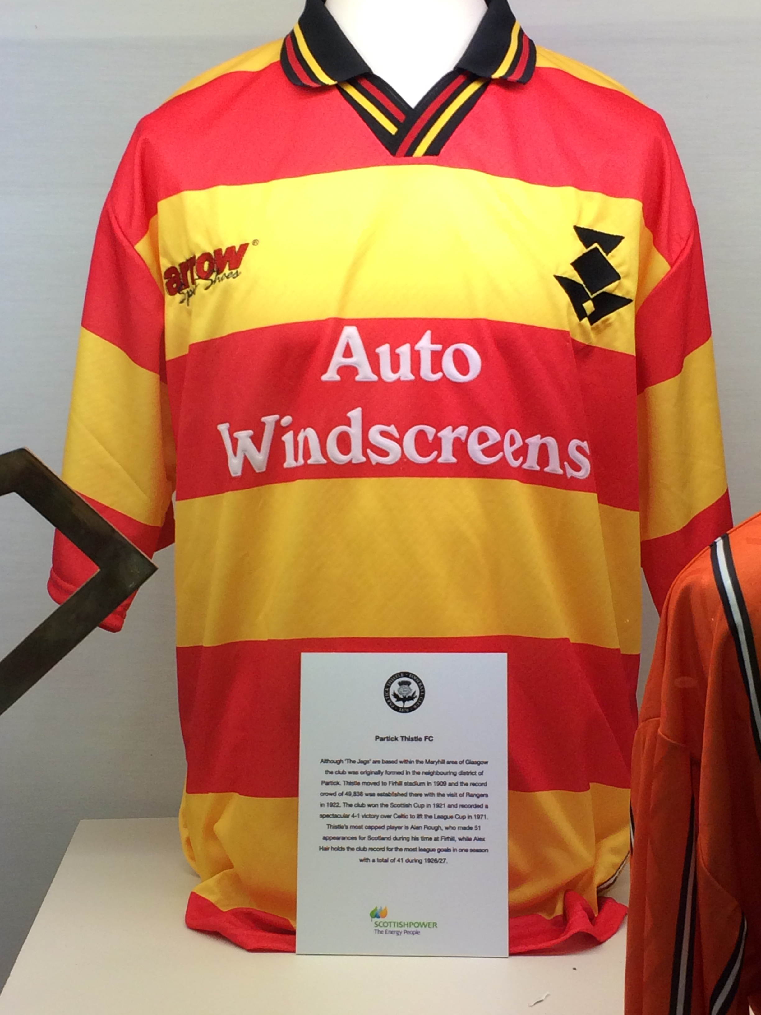 An Older Partick Thistle kit, displayed in the Scottish Football Museum at Hampden Park, Glasgow.